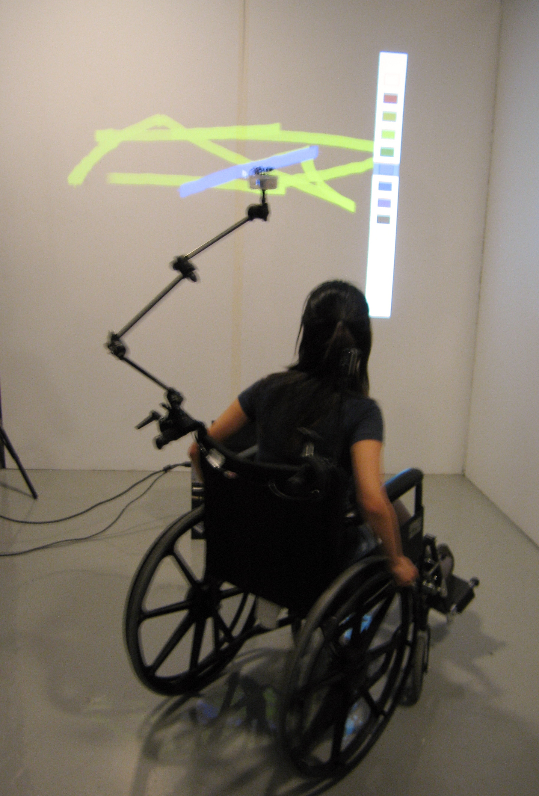 Drawing via wheelchair using a Wii Remote. At Maker Faire in New York City.